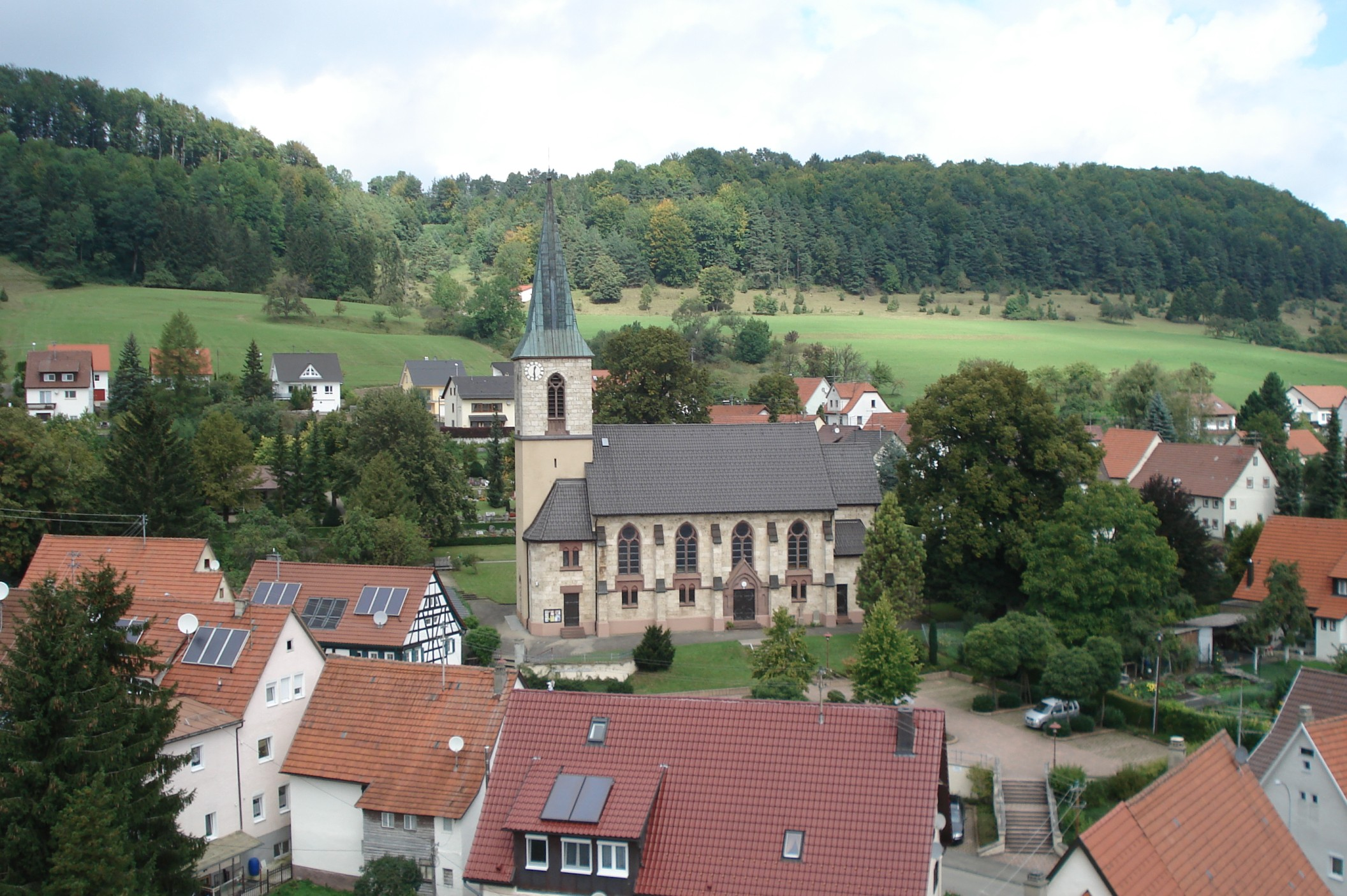 St. Michaels Church of Albstadt Pfeffingen.